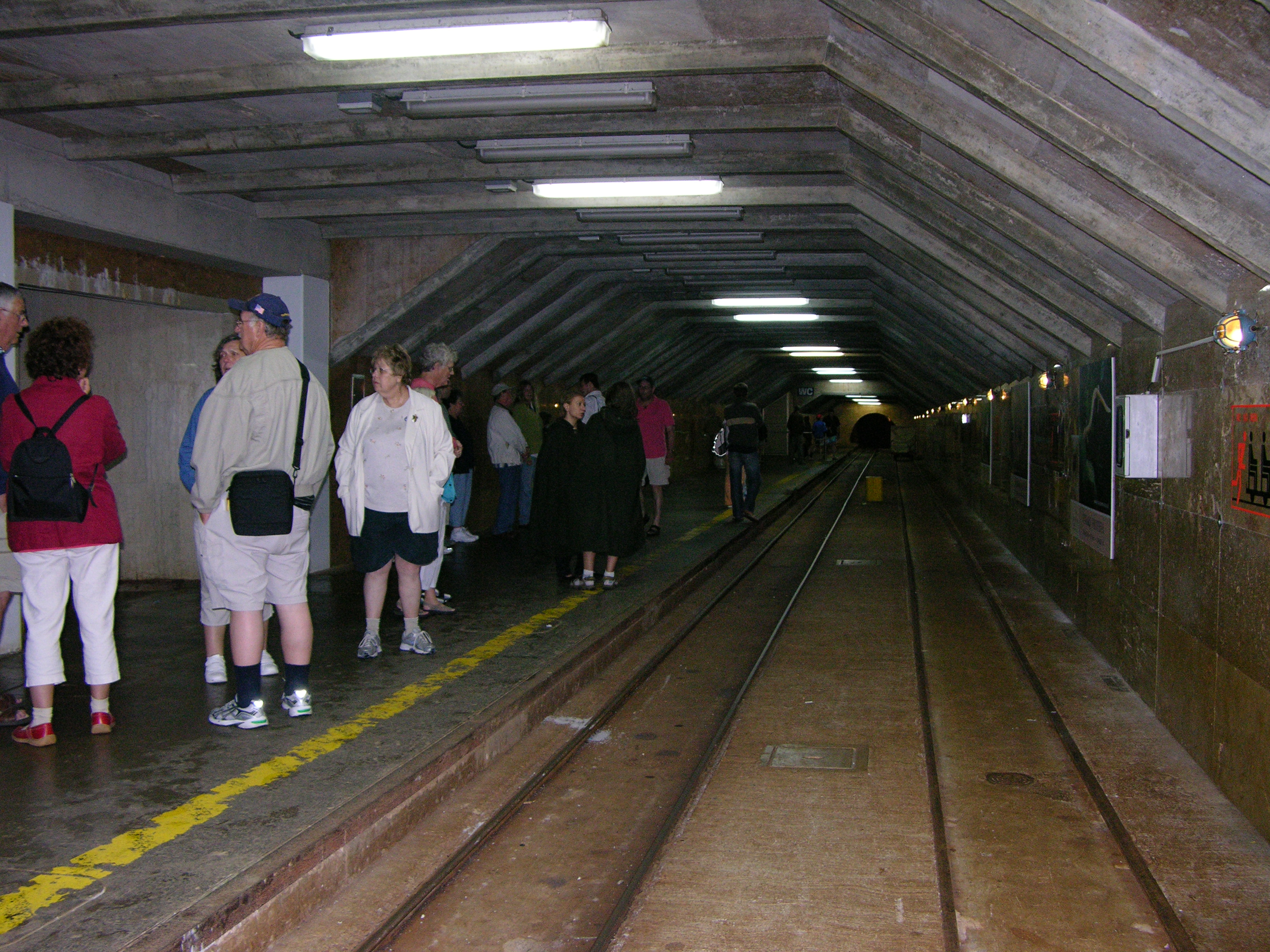 The train-station in the Postojnska jama (Cave of Postojna) in Slovenia. This train-station is located 2,5 km from the exit of the cave. The only way there is by train.